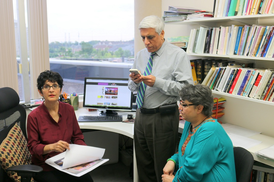 Editorial team of Persian weekly newspaper SHAHRVAND in Toronto. Left to Right: Nasrin Almasi, Hassan Zerehi (Editor-in-Chief), Farah Taheri. SHAHRVAND is considered as the largest Persian-language newspaper in Canada. Photo: PDN / June 2014